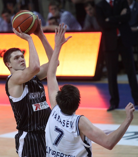 Russian bball player